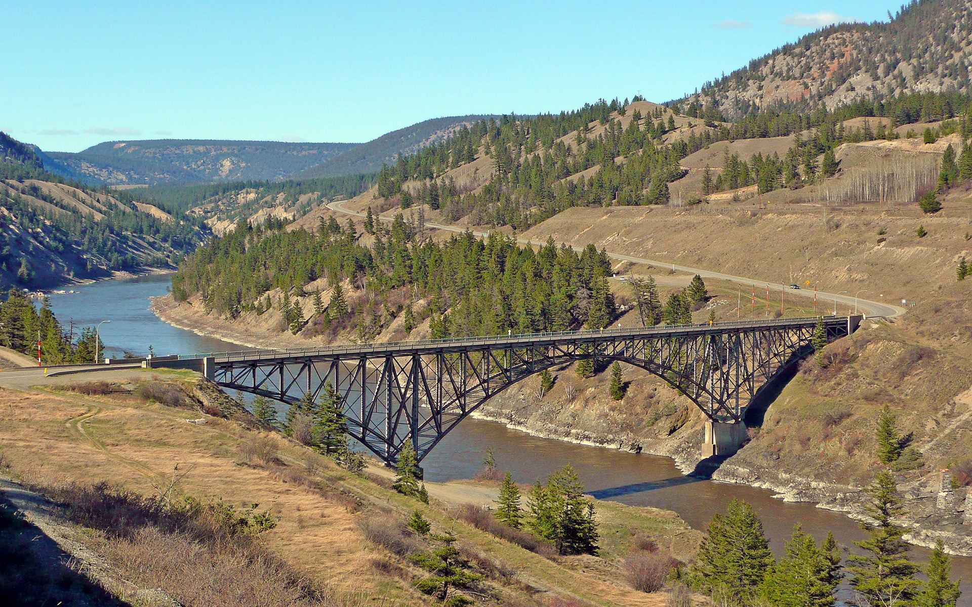 The Sheep Creek Bridge carries BC Highway 20 across the Fraser River in British Columbia.